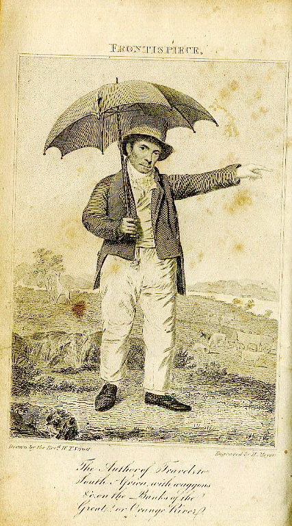 Title page of "Travels in South Africa" and engraving of author on the banks of the Great or Orange River